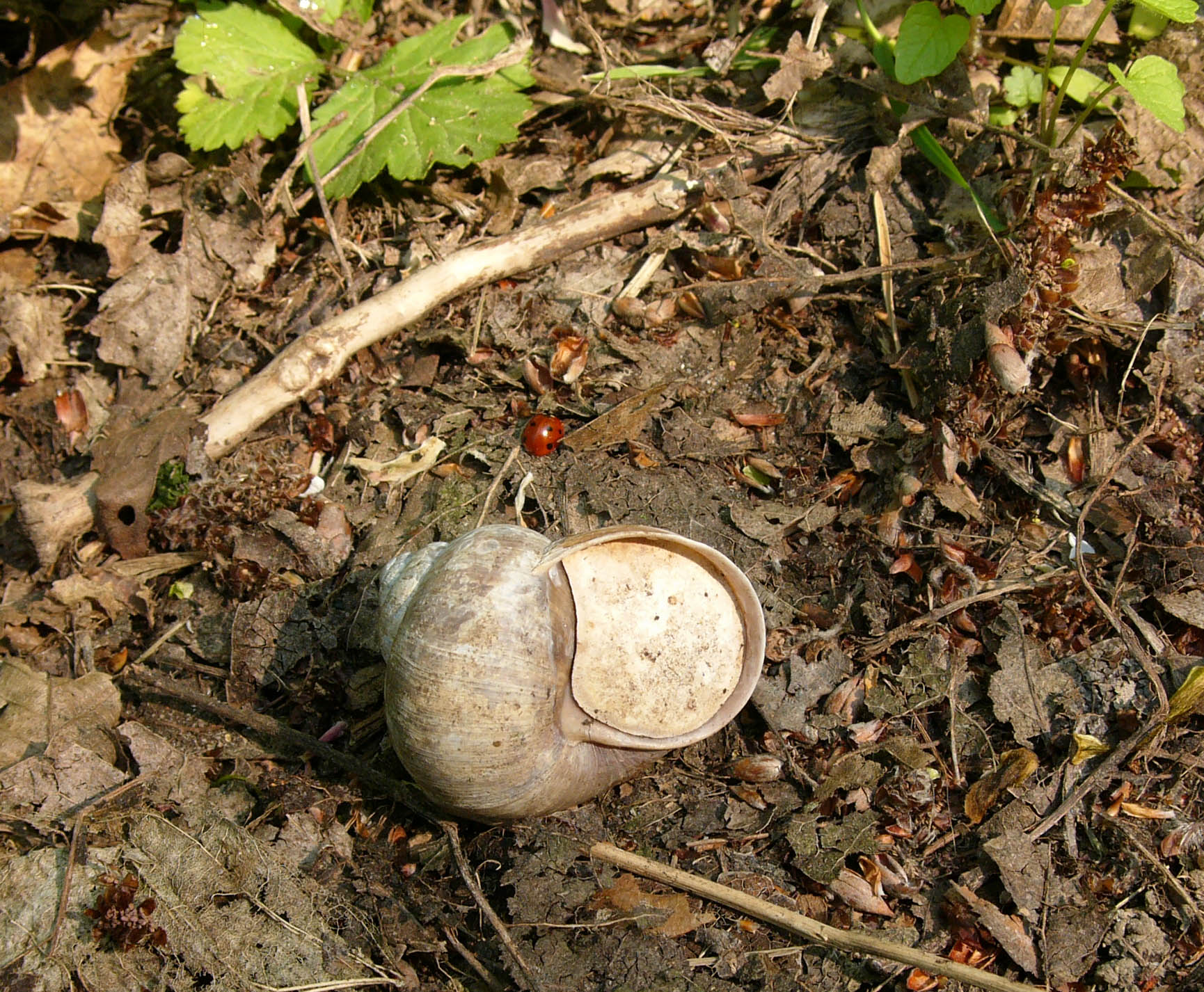 Helix pomatia with epiphragma in spring